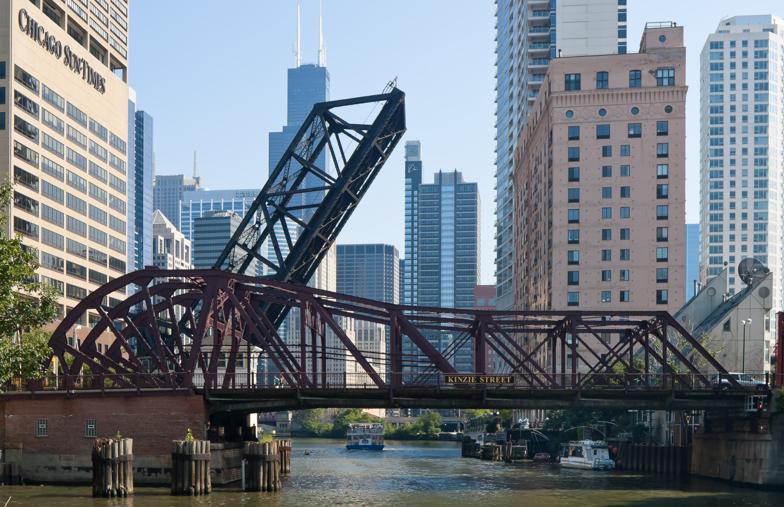 Kinzie Street bridge across the north branch of the Chicago River in Chicago, Illinois